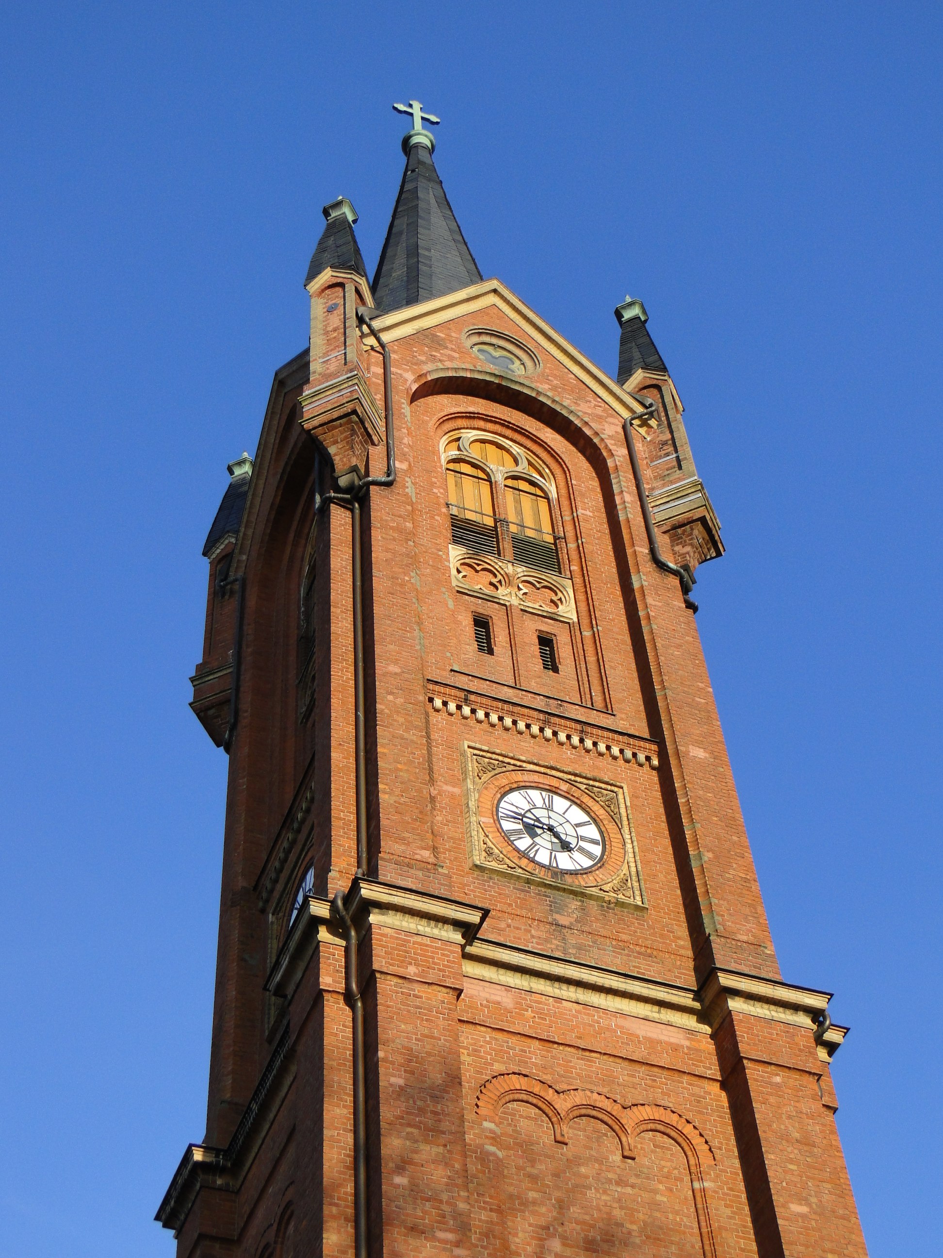 Church in Feldberg, district Mecklenburg-Strelitz, Mecklenburg-Vorpommern, Germany